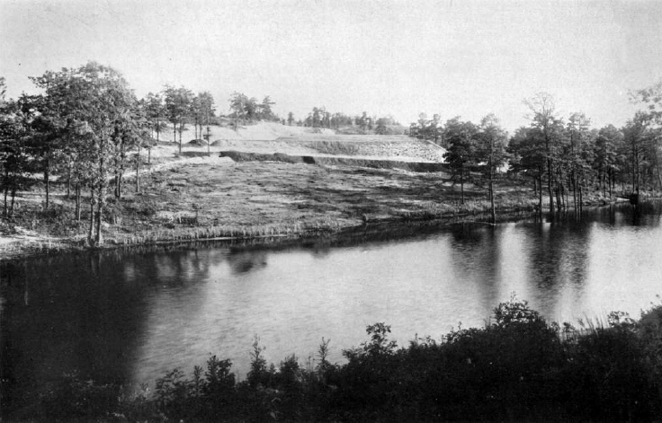 Pine Valley Golf Course, 5th Hole, 1915